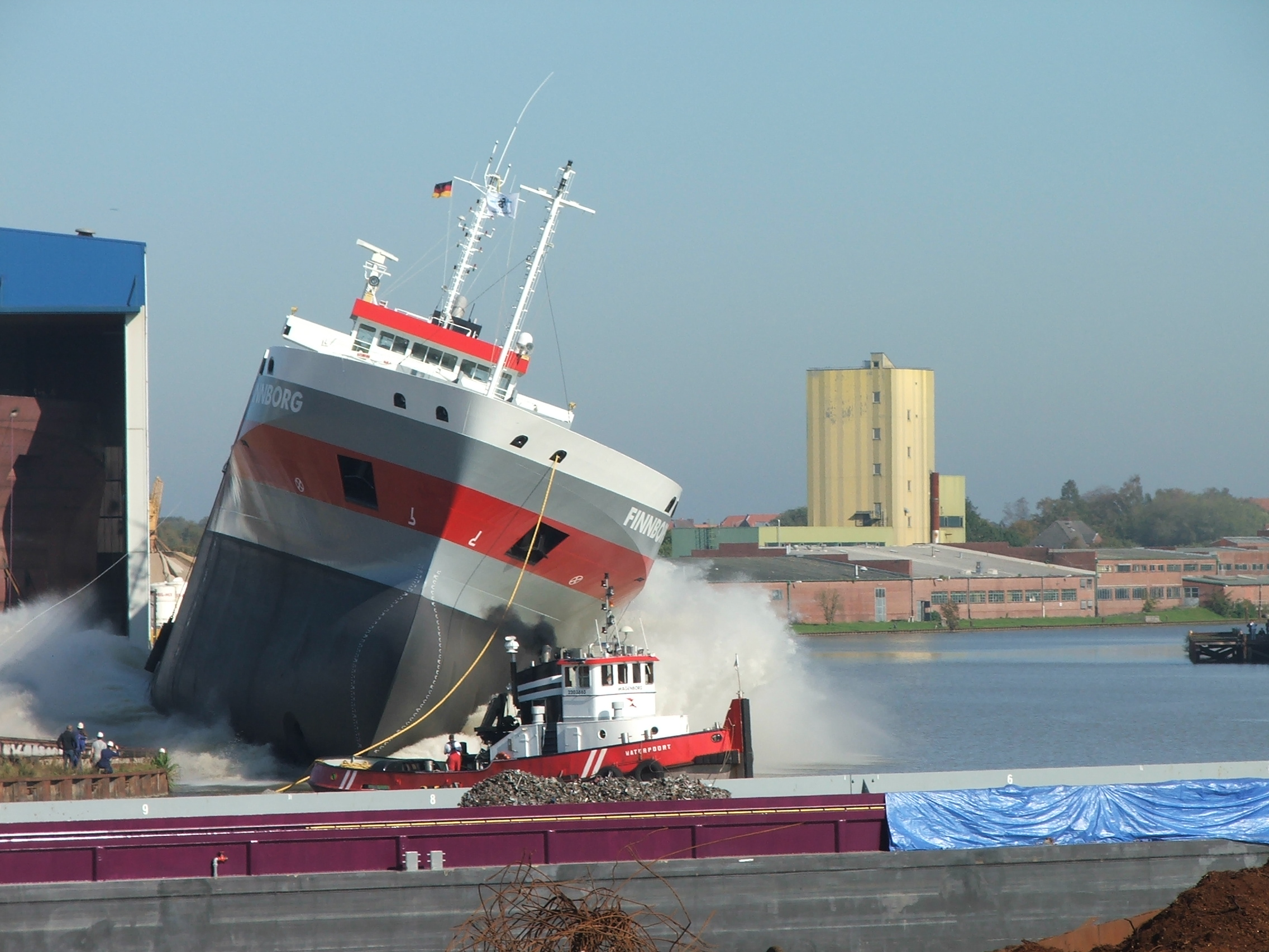 Launch of "FS 14600" type motor vessel "Finnborg" at Ferus Smit shipyard in Leer